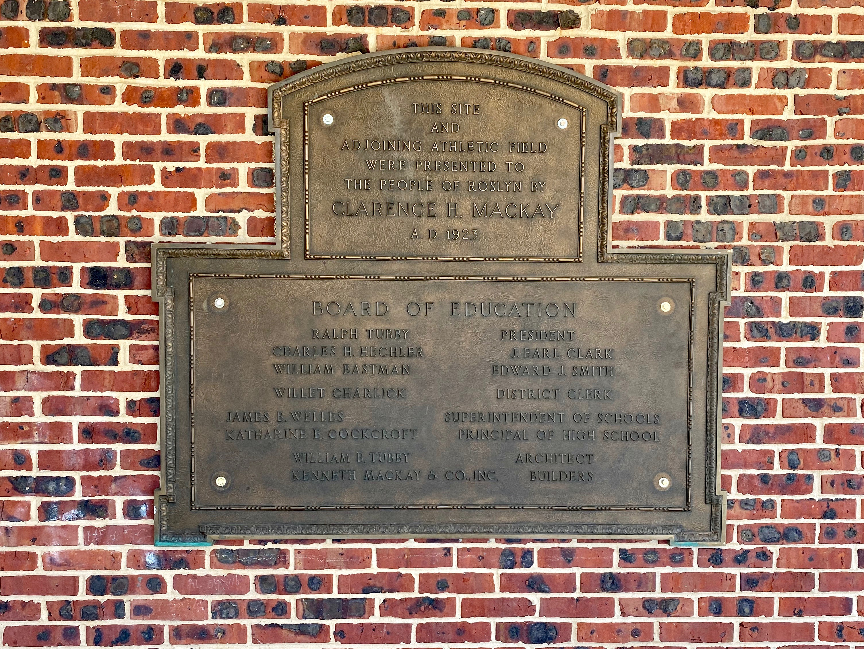 The plaque which commemorates the Mackay family's donation of the land that the school sits on. This plaque was in storage for many years, and was recently re-installed near the school's visitor entrance.